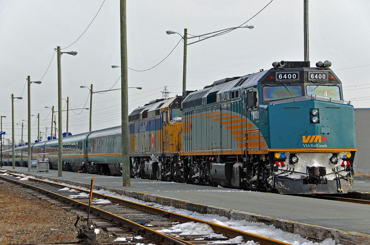 VIA Rail's 6400 and 6416 at the terminal in Halifax, Nova Scotia, Canada, hauling the Ocean. VIA Rail's F40PH-2 locomotives were built by General Motors Diesel in London, Ontario in 3 batches between November 1986 & July 1989. There are Bo-Bo diesel electrics rated at 3000 hp although the drain caused by the passenger car needs can reduce it to 2300 hp. Top speed on 6400 and 6416 is 95 mph.